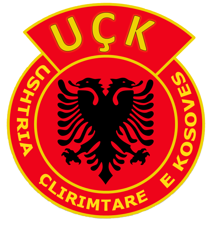 Logo of the KLA (Kosovo Liberation Army)